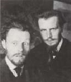 Lodewijk Schelfhout (l) en Conrad Kickert (r)